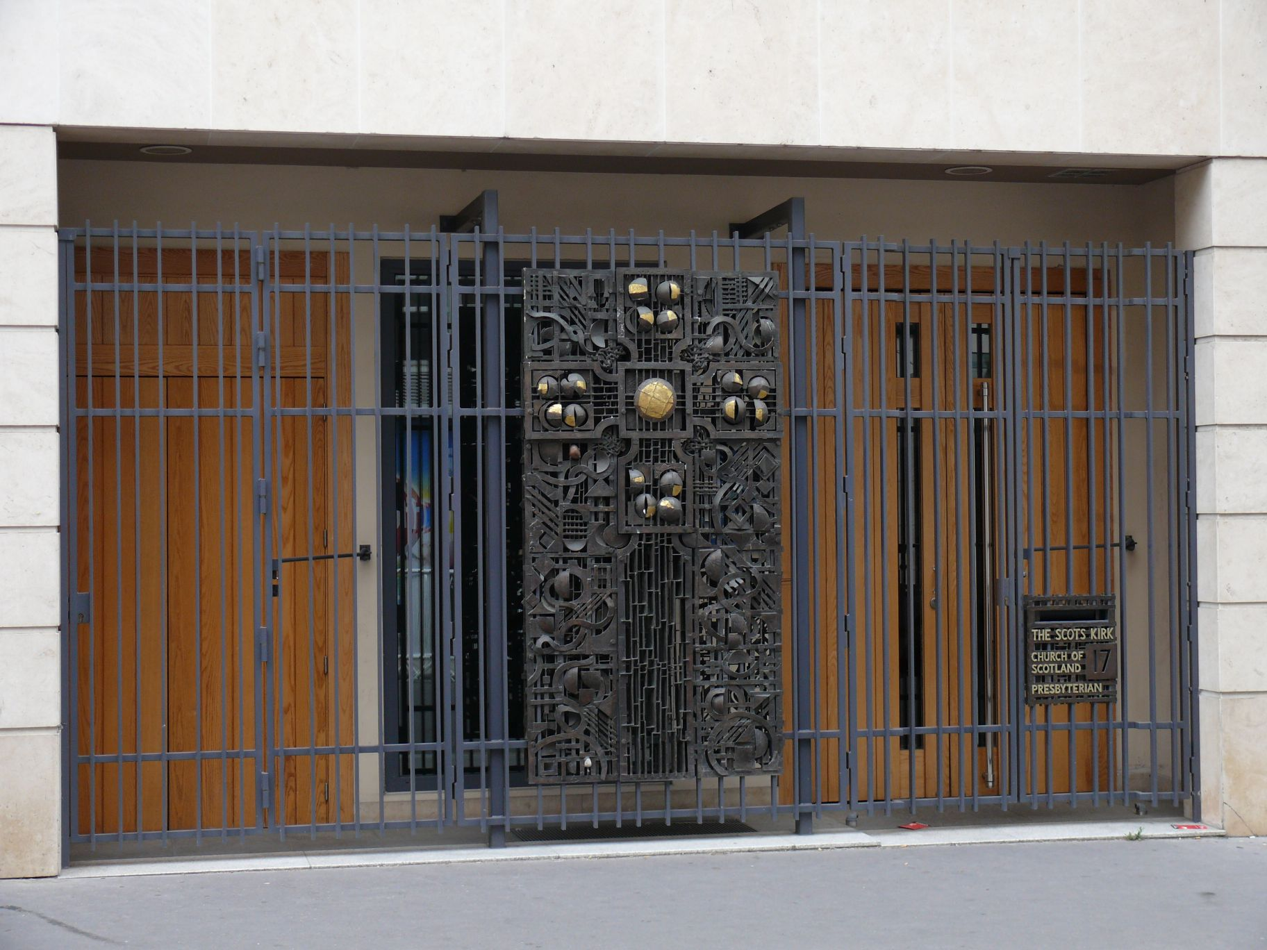 Door of the Scottish church of Paris (Paris VIII, France)